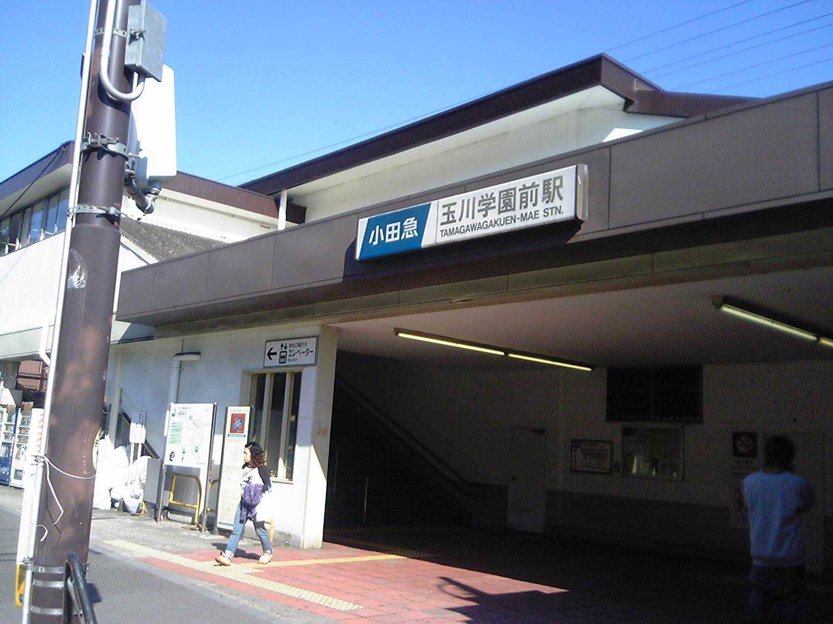 фото из японской вики